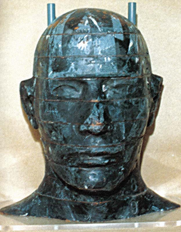 Human skull flown as part of DSO-469 on Space Shuttle missions STS-28, 36, and 31 during a study of radiation doses in space.